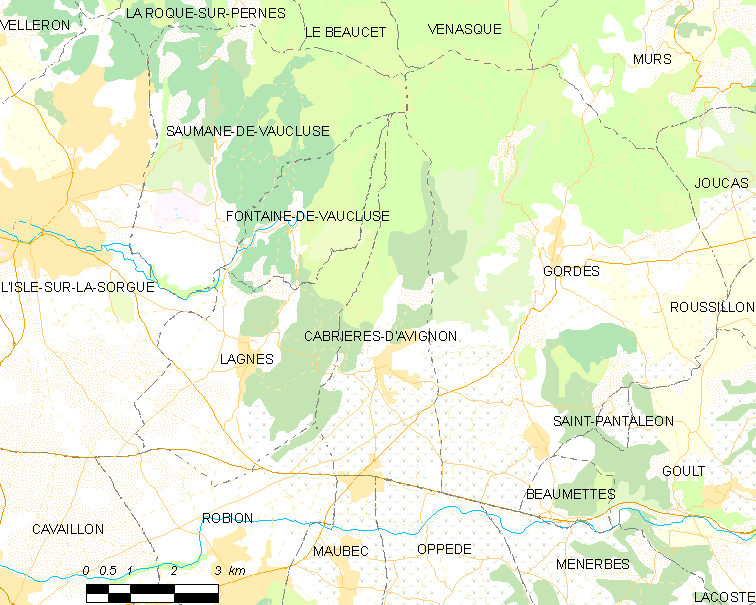 Map of French municipality Cabrières-d'Avignon